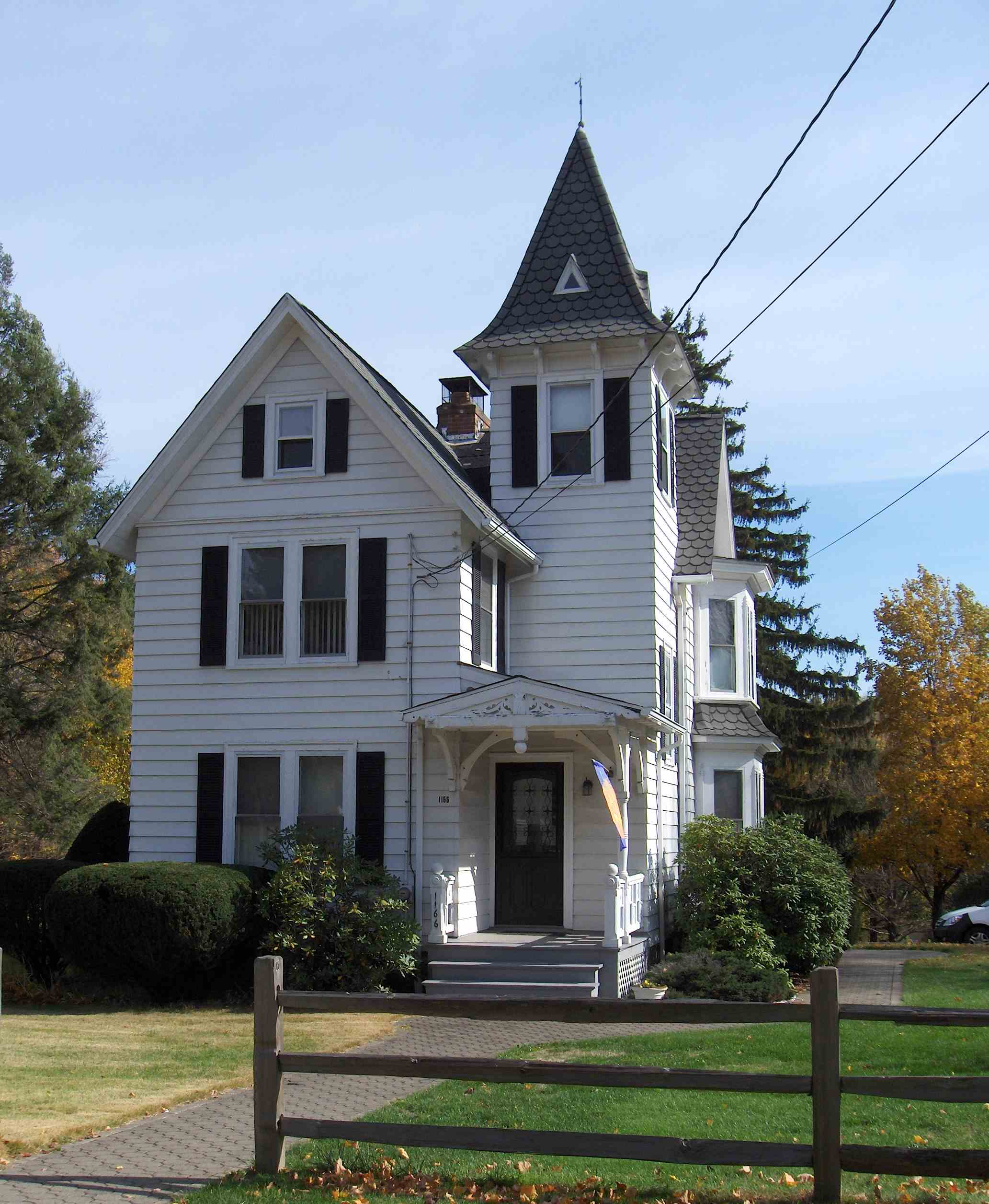 Lester Beecher House, a Queen Anne style house at 1166 Marion in Southington, CT USA, built c.1875.